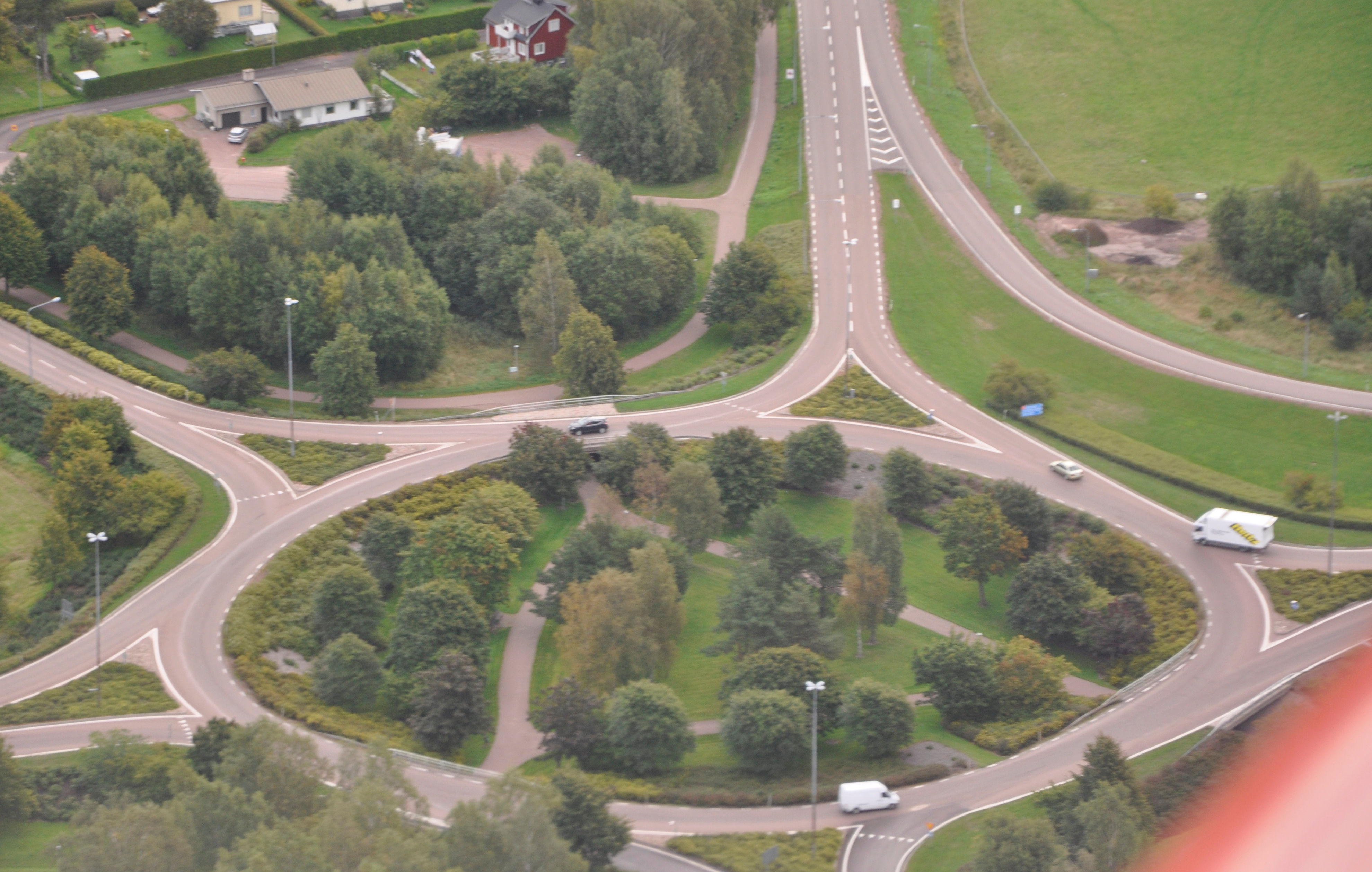 The roundabout Rökerirondellen in Mariehamn, aerial view 2016.